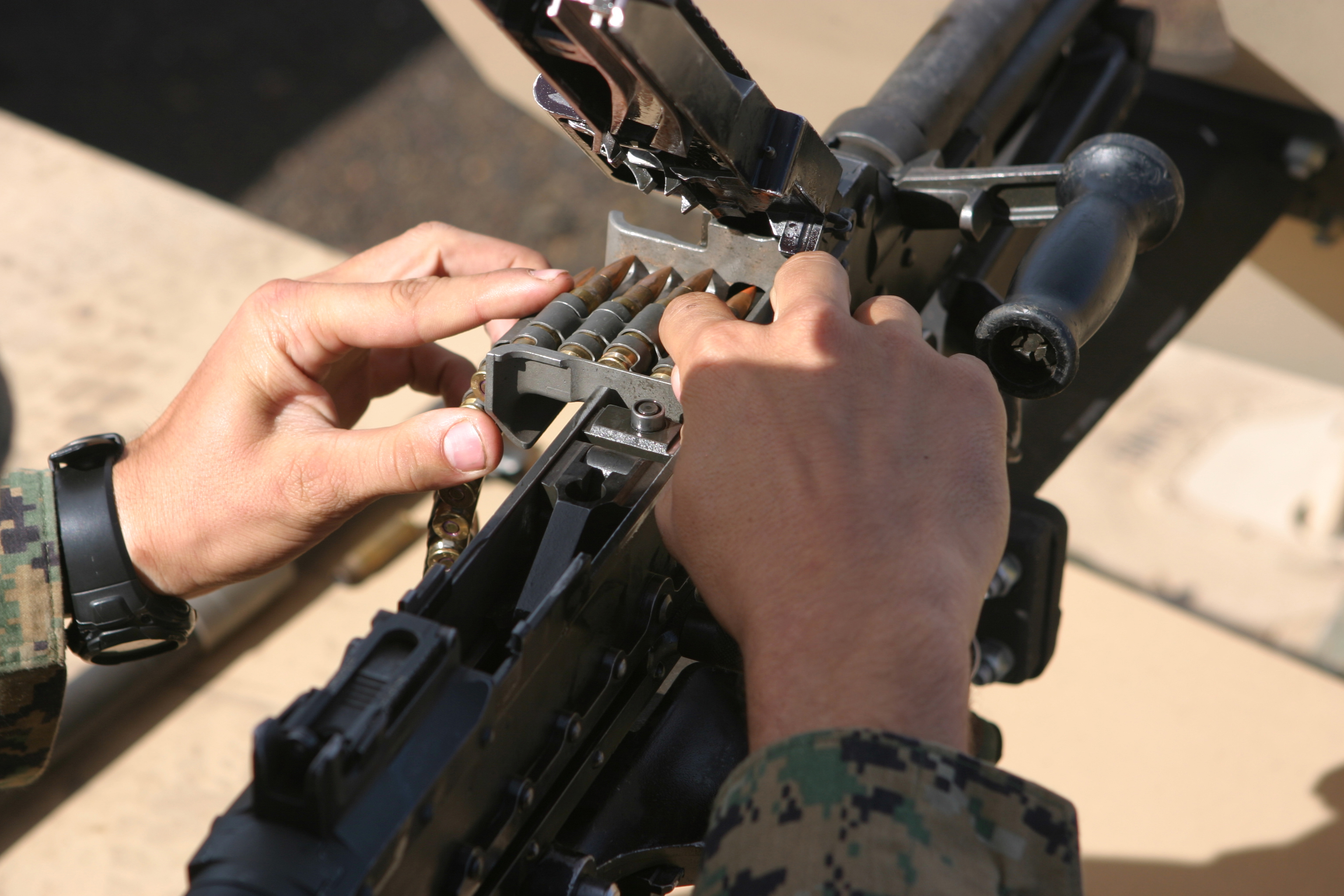 A Marine loads rounds into his M240G before firing the unknown distance course Oct. 5 at Range 8 inside of Pohakuloa Training Area. Photo by: Cpl. Rick Nelson Photo ID: 2006101321226 Submitting Unit: MCB Hawaii Photo Date:10/05/2006